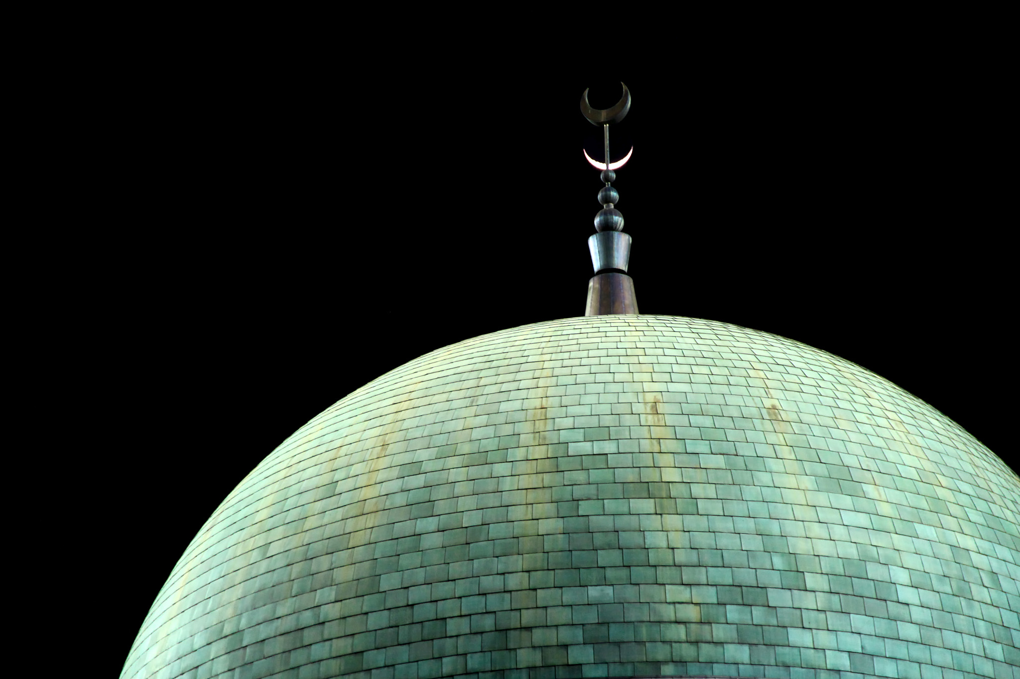 500px provided description: This was taken at the Grand Mosque of Shadian in Yunnan, China. It is the biggest mosque in China and is extremely beautiful. I took this on my drive to the Yuan Yang Rice Terraces, and had no idea this huge mosque was here. The crescent mood was also another phenomenon I was extremely lucky to see when I was passing through. Unfortunately this is not a tourism spot and it's probably not easy to get there on public transportation. [#nature ,#church ,#beautiful ,#moon ,#muslim ,#mosque ,#eclipse ,#crescent ,#islamic ,#yunnan ,#stock ,#shadian]